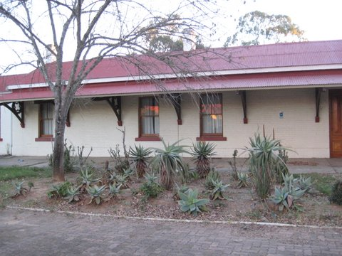 Old Railway station - 2013? Alicedale is a small settlement in Cacadu District Municipality in the Eastern Cape province of South Africa